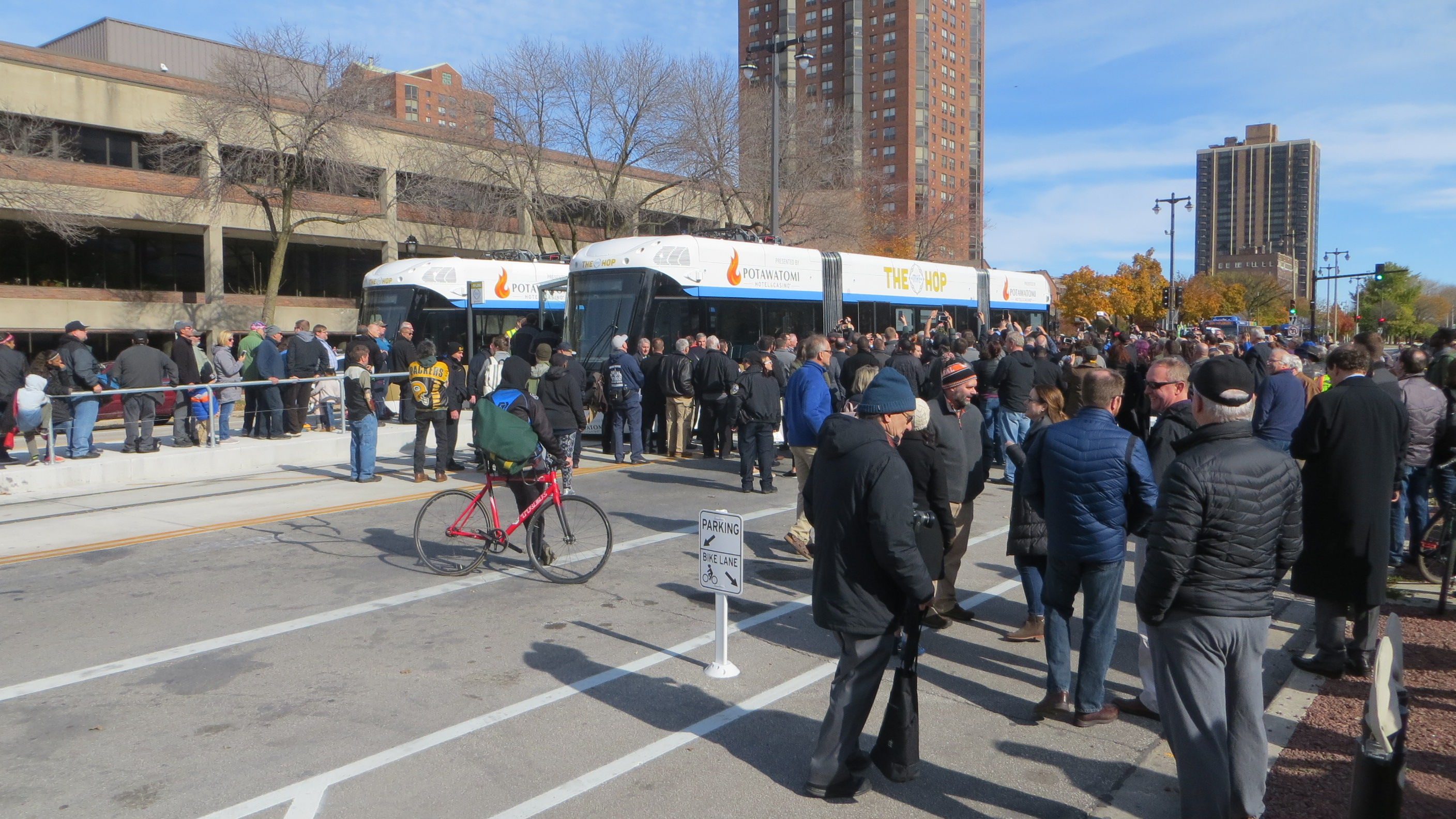 Crowd of people on Kilbourn Avenue, at the north end of Cathedral Square Park, for the opening of Milwaukee's The Hop streetcar system, on November 2, 2018.